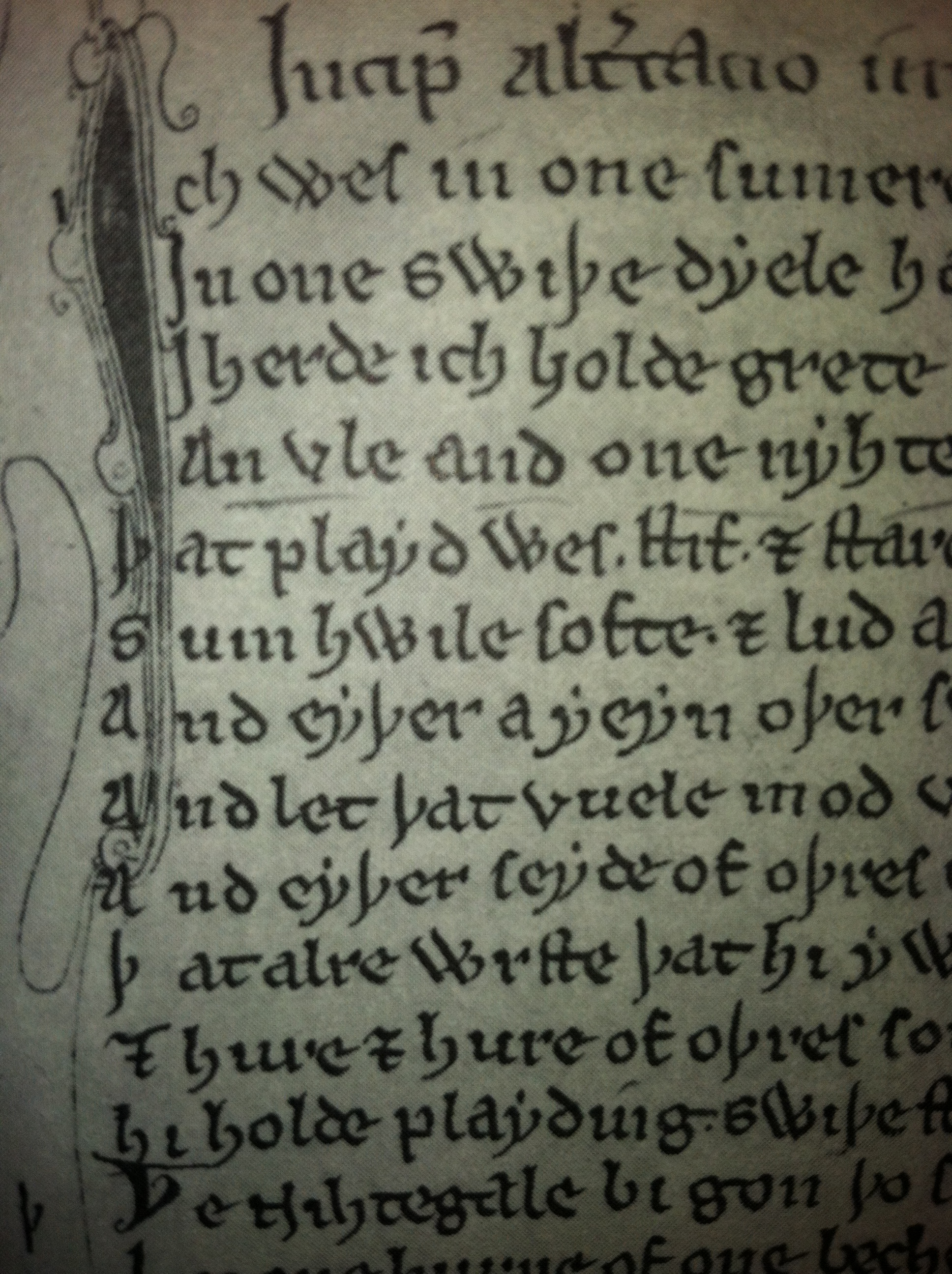 The Owl and the Nightingale in Jesus College, Oxford, MS. 29, fol. 156r.